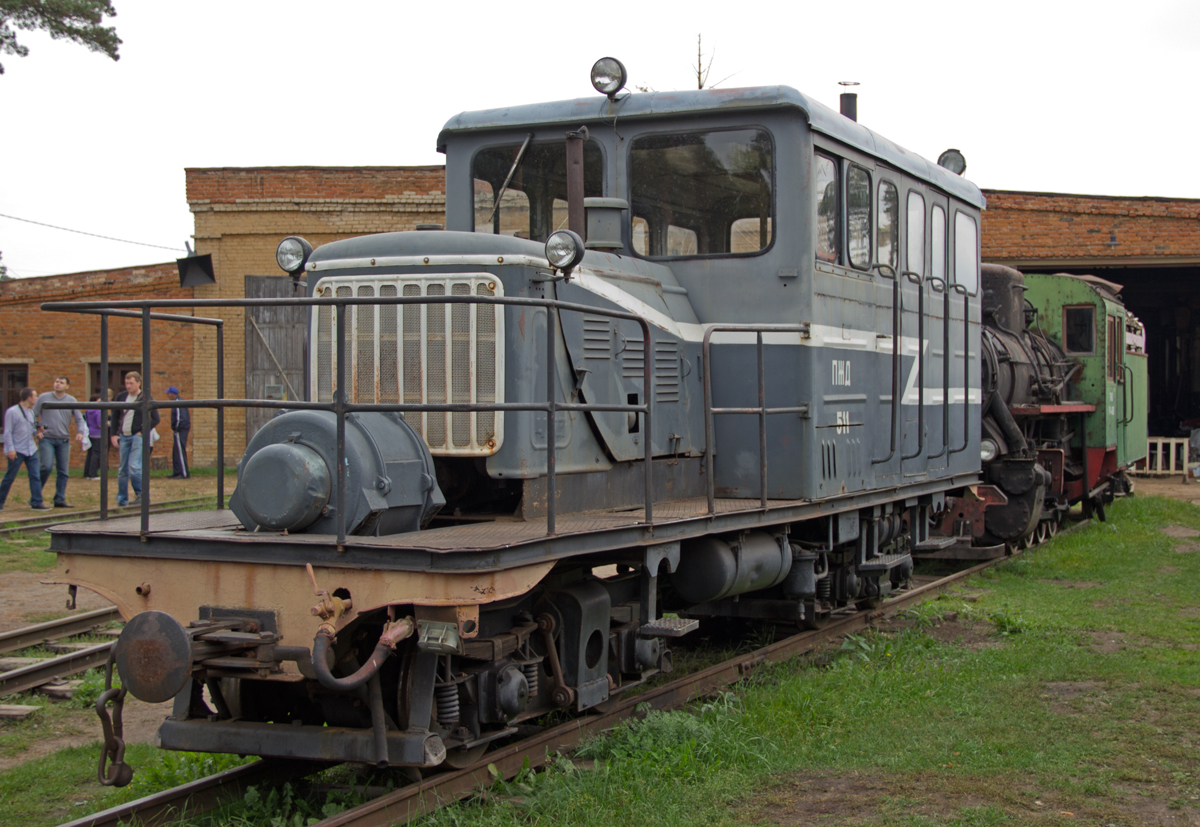 Pereslavl-Zalessky Railway Museum